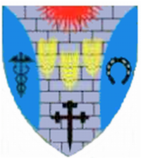 Coat of arms of Călărași County, Romania.